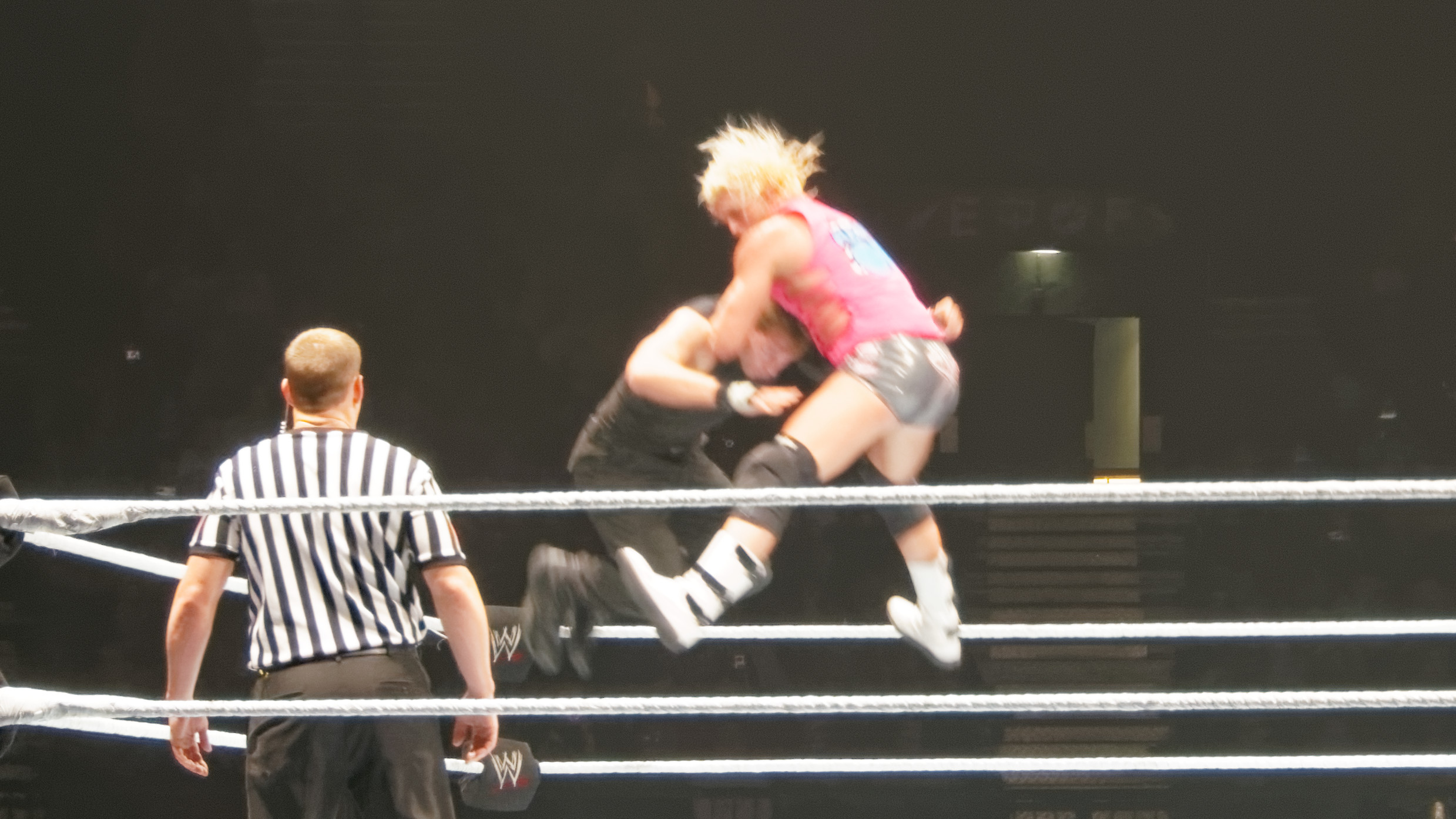 Dolph Ziggler (aka Nick Nameth) executing a facebuster from the top rope on opponent Dean Ambrose (aka Jon Moxley/Jonathan Good) at a WWE event in November 2013.